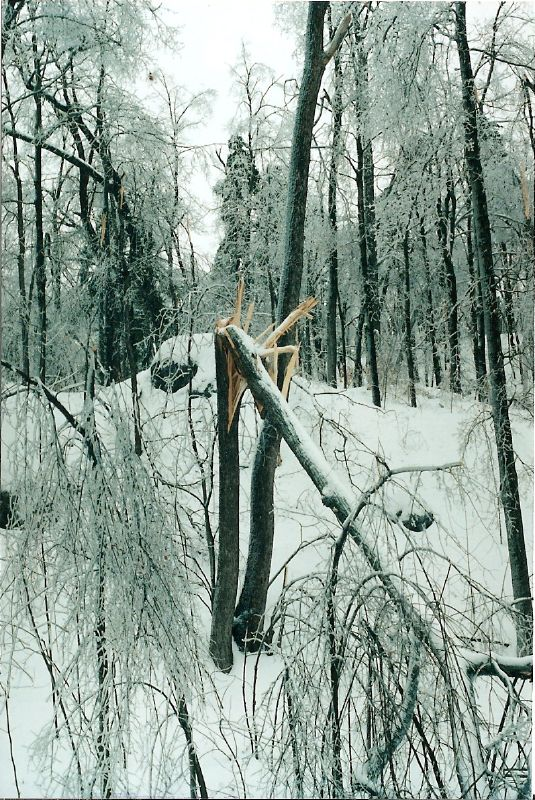 A mature tree demolished on the ridge along Notch Road